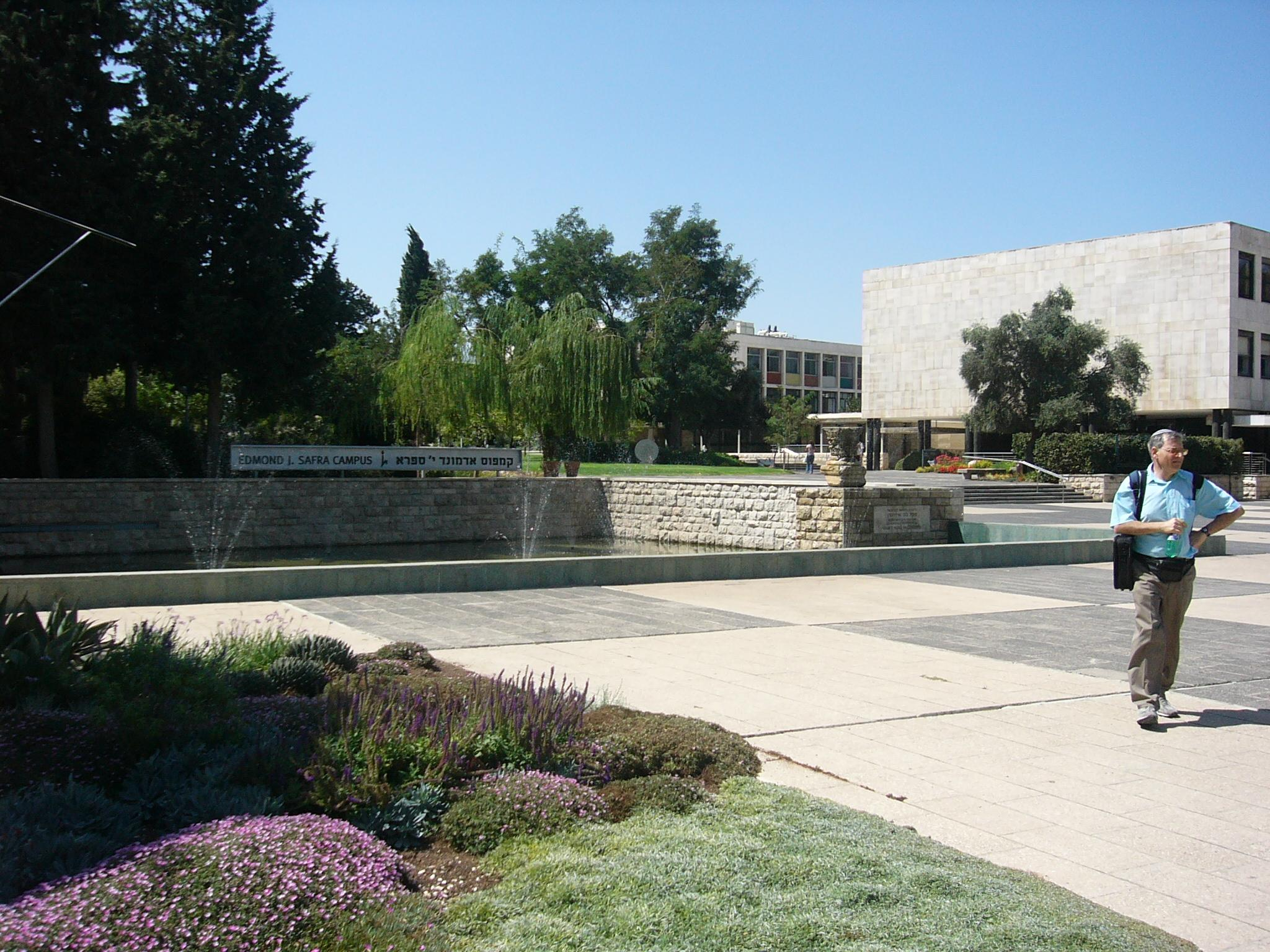 Givat-Ram Campus, entrance piazza